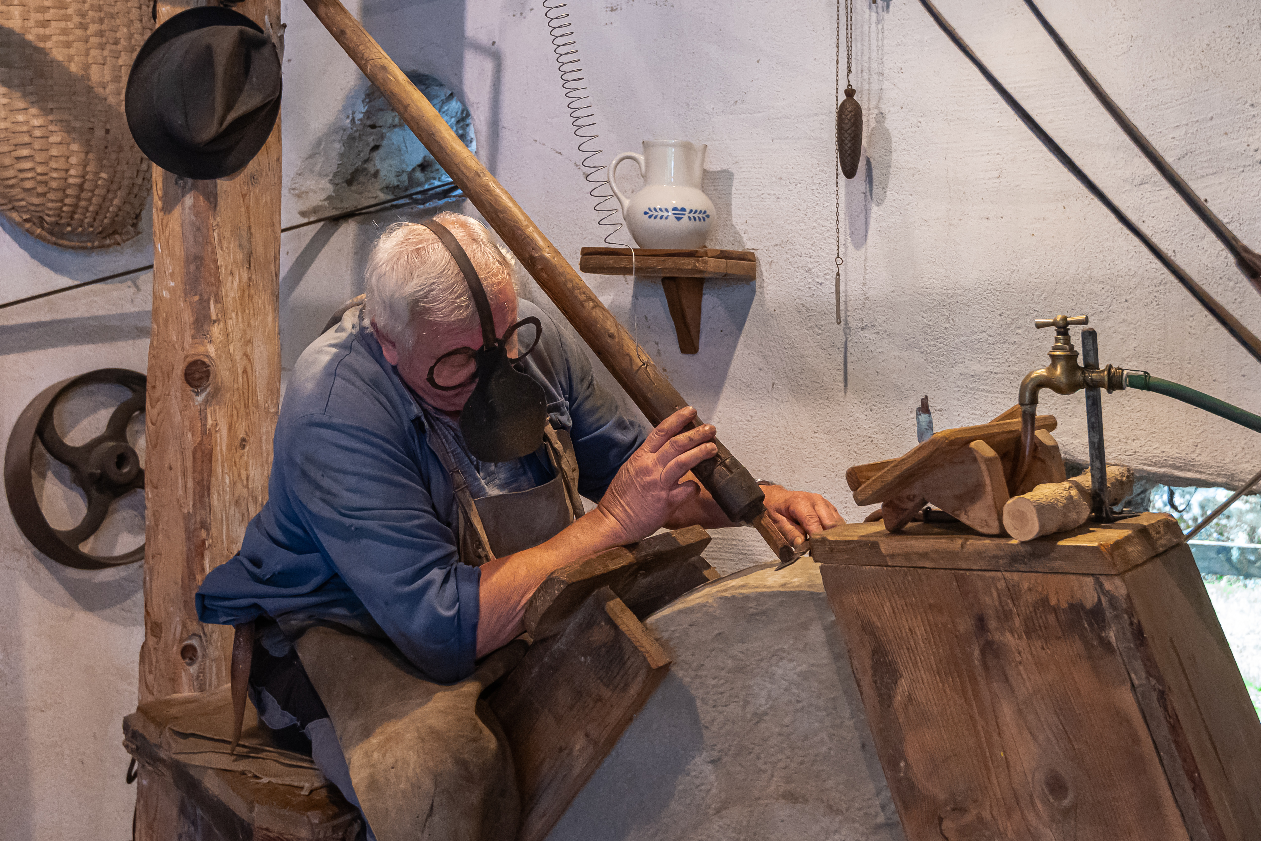 Grinding of knife blades was stressful and dangerous. The blade was pressed by means of a wooden stick and by hand against the grindstone. This stone has had a circumferencial speed of 25 m/sec and could burst at any time. (forger Josef Riegltaler at work in grinding workshop of forge "zum König", Trattenbach, Upper Austria)